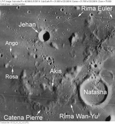 Lunar orbiter image of craters Akis, Natasha, Jehan, Ango, Rosa; Catena Pierre; Rima Wan-Yu and Rima Euler